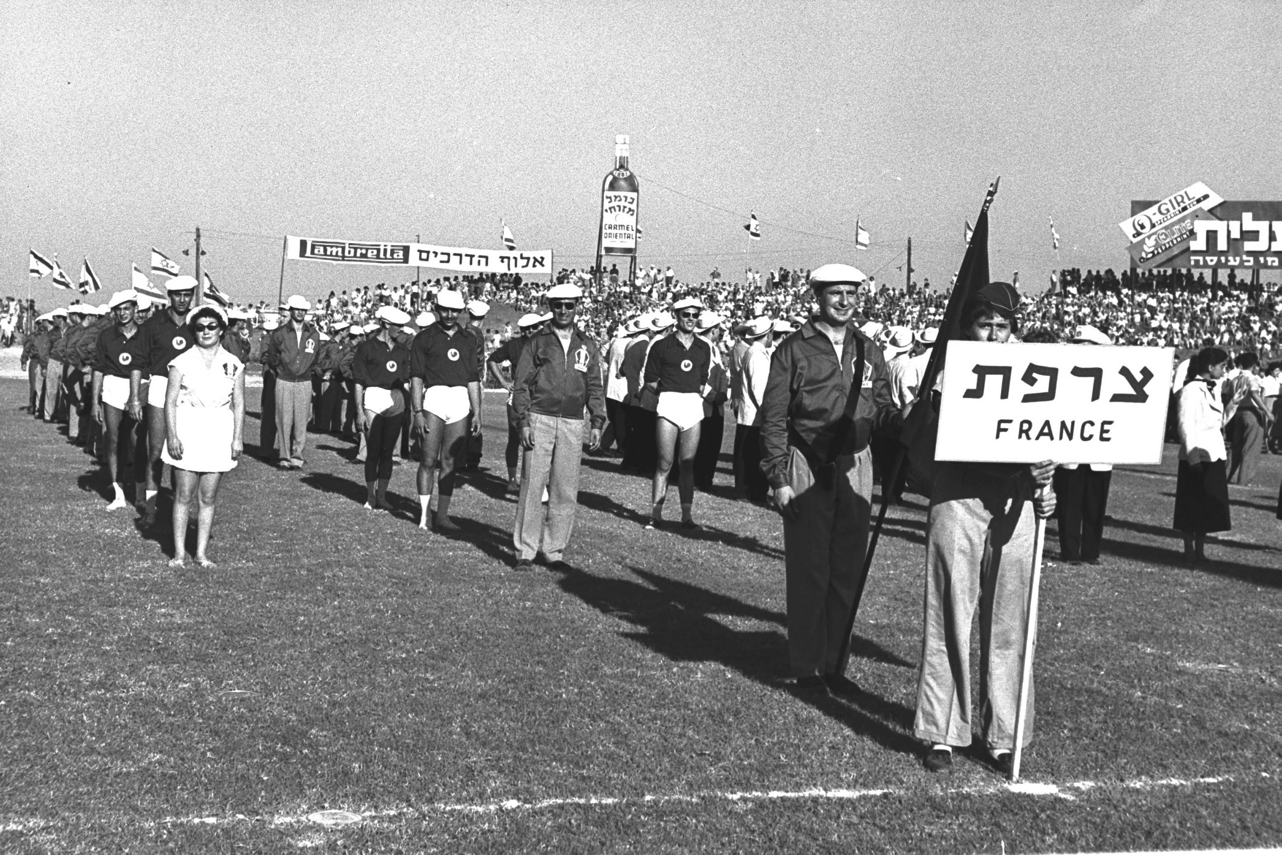 The French Team at the opening ceremony of the 5th Maccabia Games, held at the Ramat Gan Stadium.